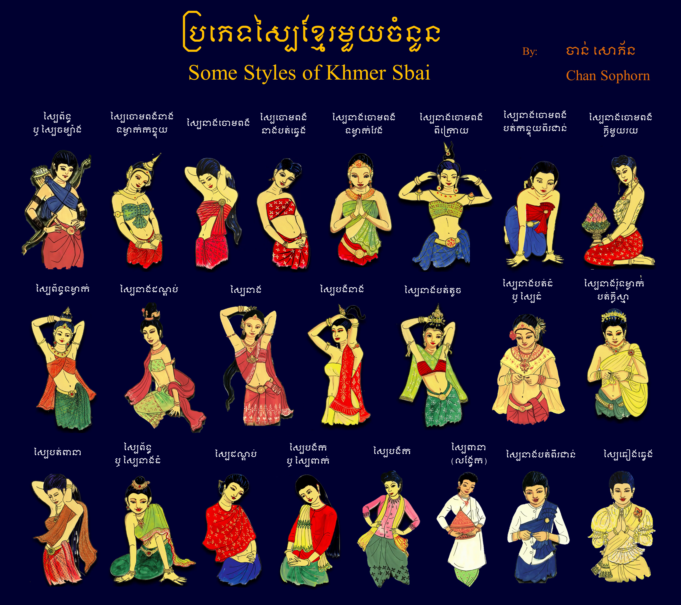 Various styles of Sbai or breast clothes were worn by Khmer women